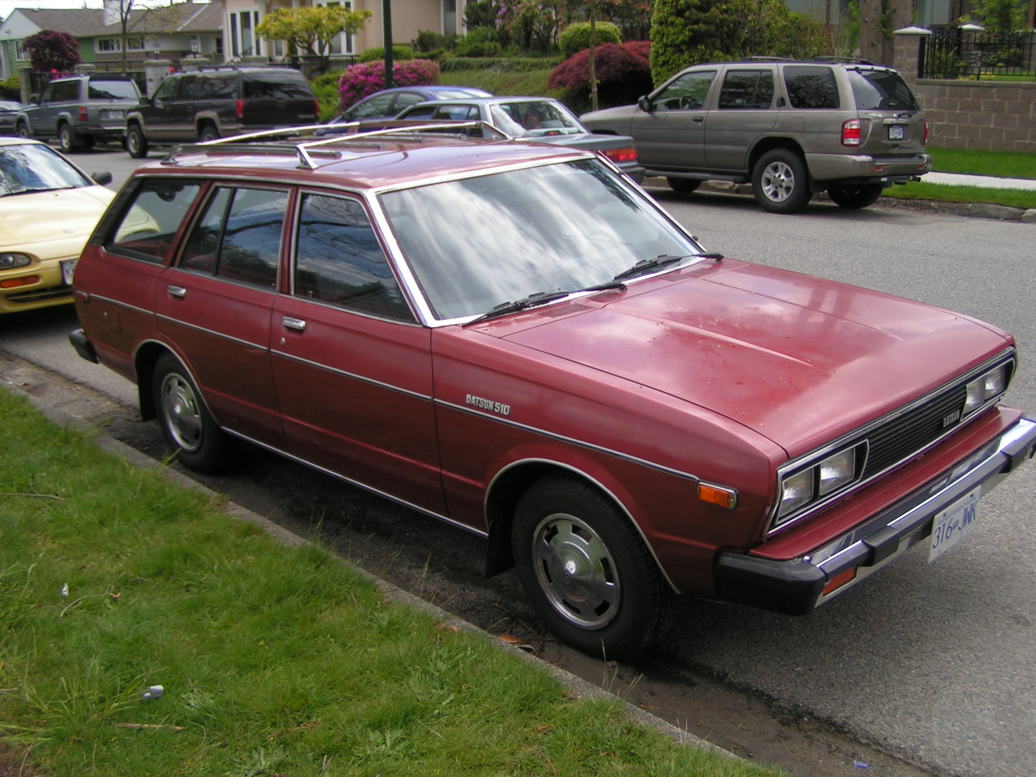 A well preserved Datsun 510 wagon - this one is either a 1980 or 1981. The earlier ones had round headlamps. In 1980 the 510 got the Z20S engine or the Z20E engine with fuel injection.